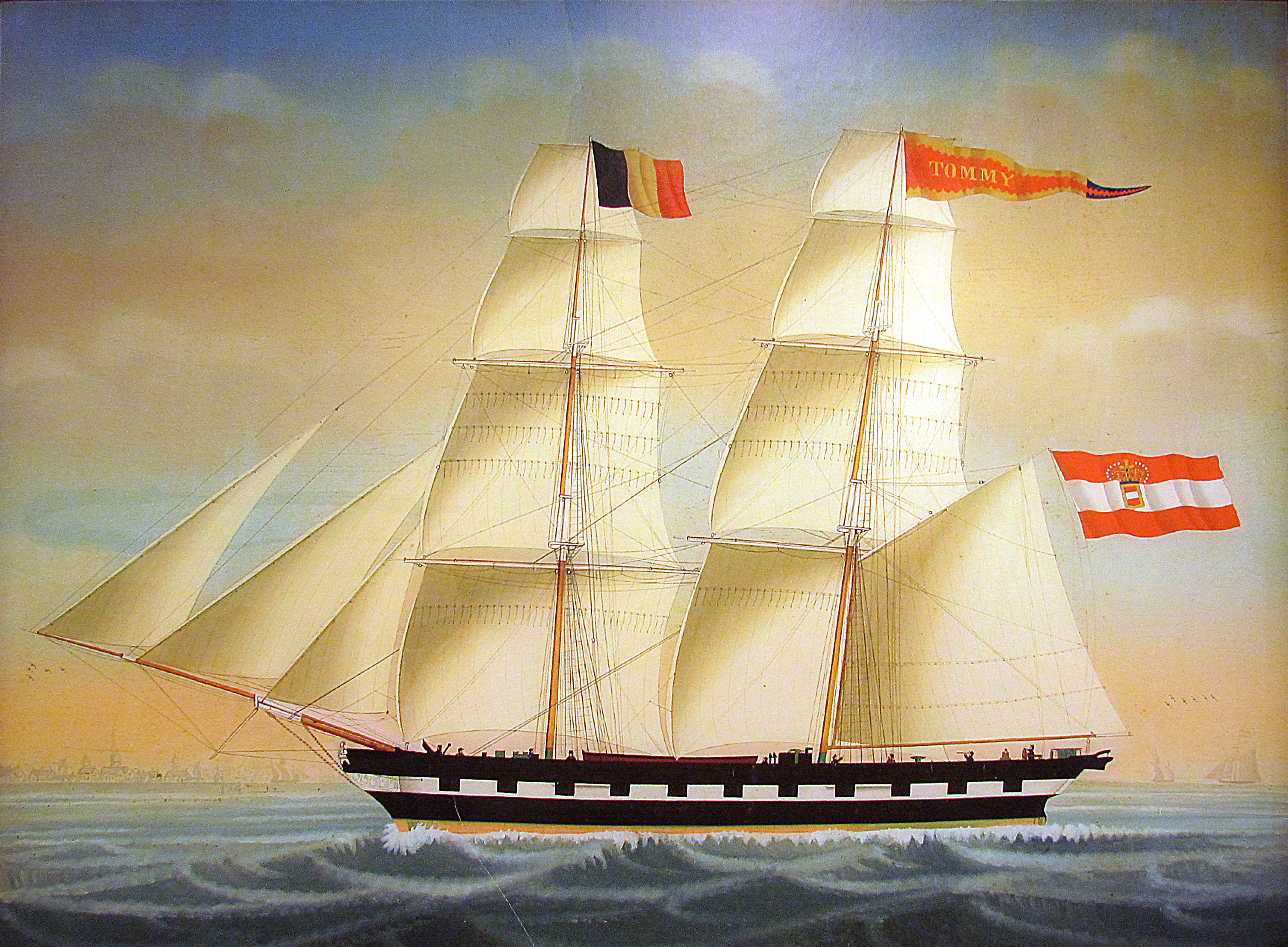 Brigantine Tommy ownership of Cristoforo Opuich Serbian trader from Trieste